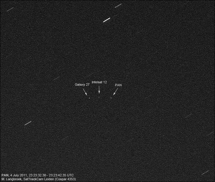 The classified US geostationary satellite PAN (09-047A) and two nearby commercial geostationary satellites, imaged on 4 July 2011 by Marco Langbroek, the Netherlands.